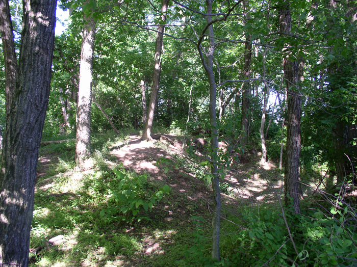 The Mississippian culture platform mound at Rowlandton Mound site in Paducah, Kentucky, with an exposed pit during archaeological excavations in the summer of 2003.